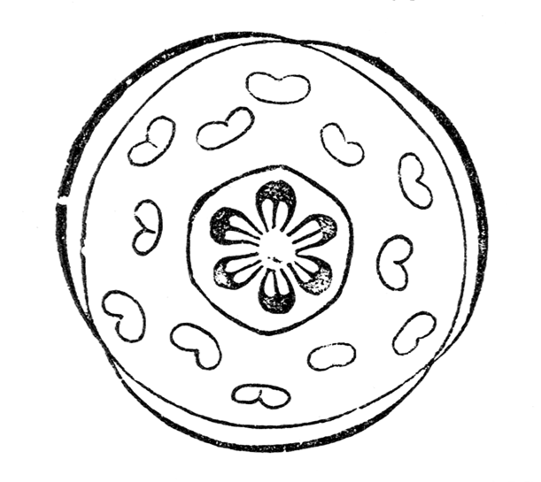 flower diagram of Asarum europaeum